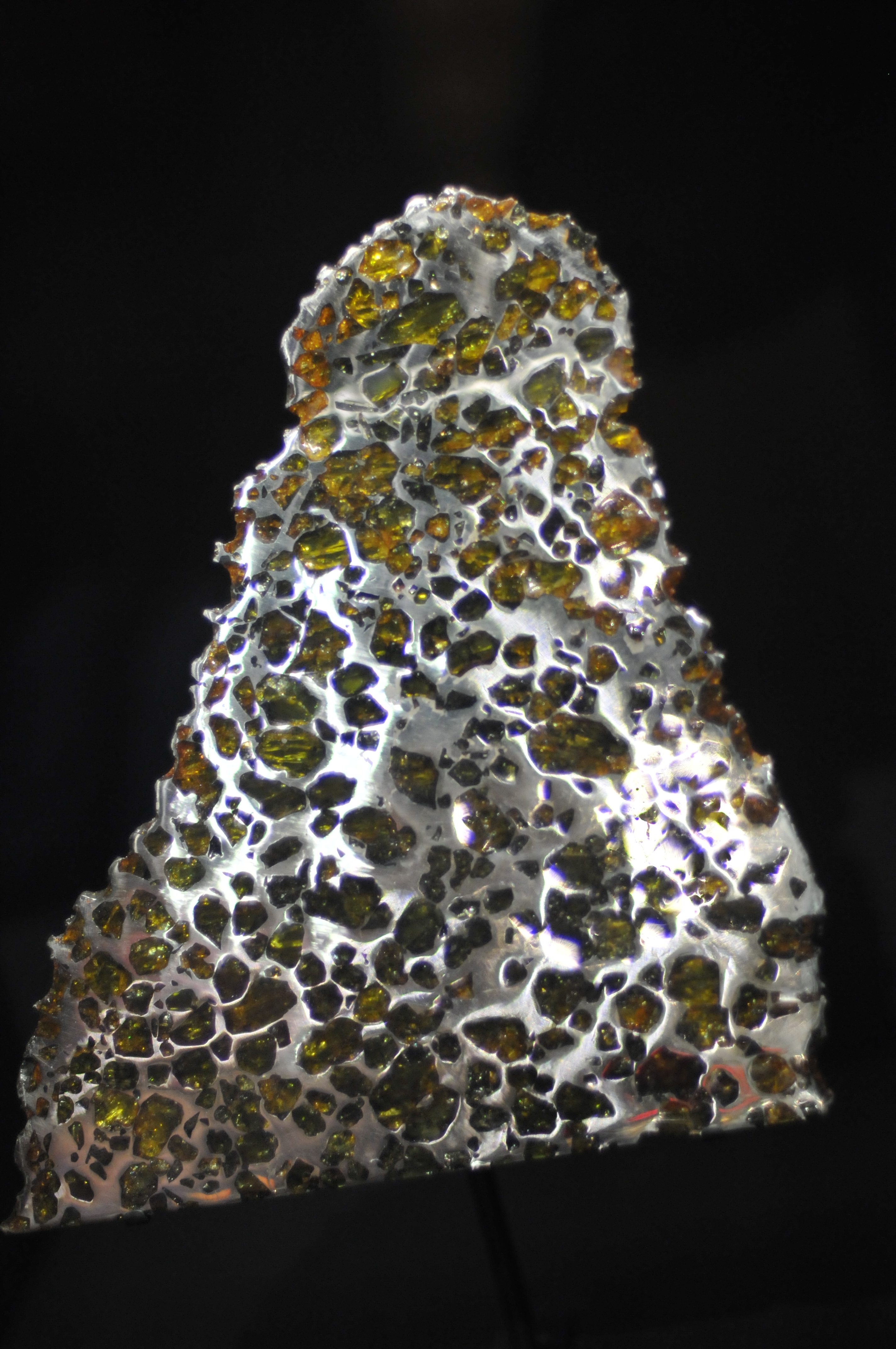 A partial slice of the Esquel (meteorite) discovered in Esquel, Chubut Province, Argentina. It is presently in the Canadian Museum of Nature in Ottawa, Canada.